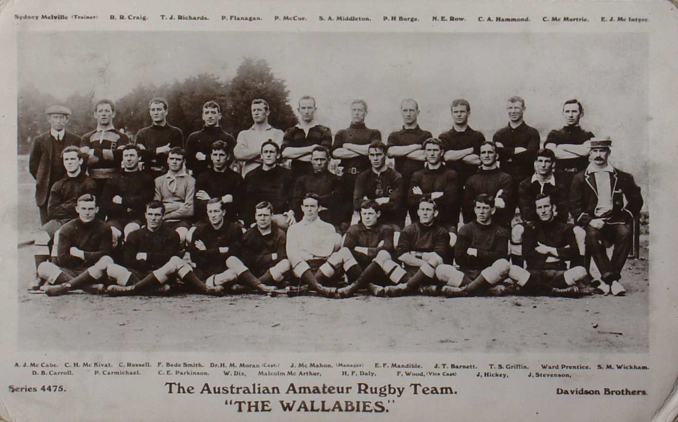 The Australia national rugby union team, tour of Britain, France and North America; newer version of postcard with nickname Wallabies.